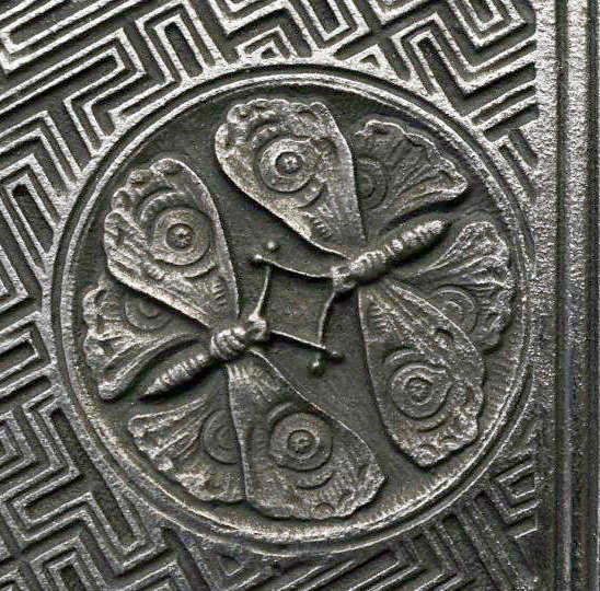 Monogram insert used by Thomas Jeckyll on some of his metal designs